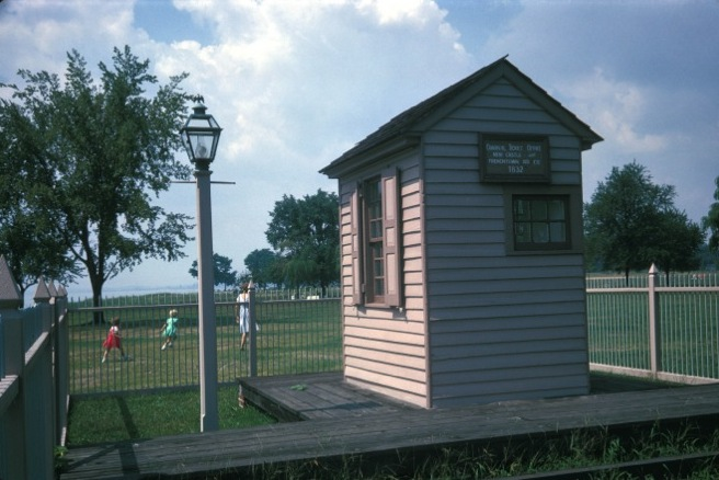 View of the original 1832 ticket office of the New Castle and Frenchtown Turnpike and Railroad Company (NC&F). The building is now located in Battery Park, New Castle, Delaware, part of the New Castle Hitoric District. The NC&F is the second oldest common carrier rail line in the United States.